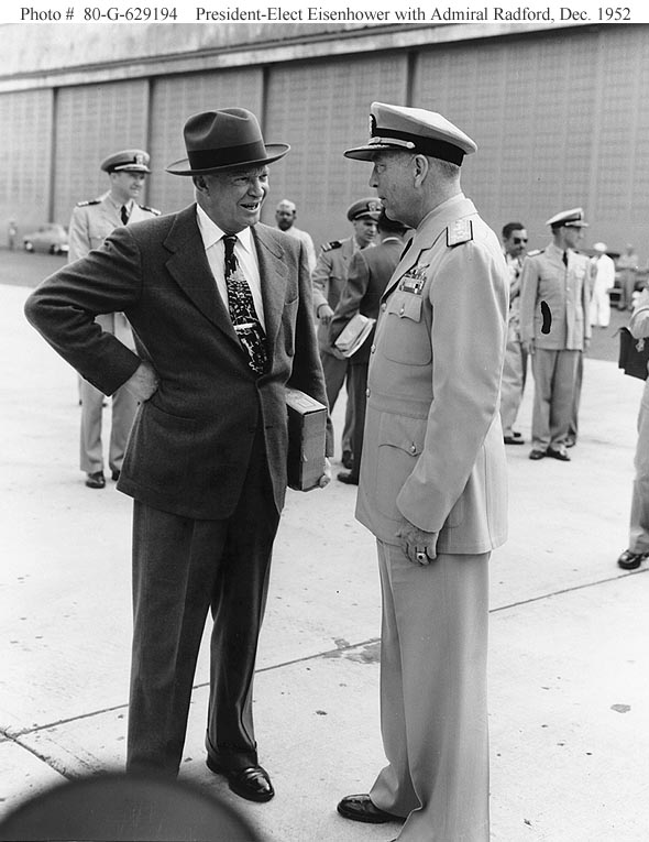 Photo #: 80-G-629194 President-Elect Dwight D. Eisenhower Talking with Admiral Arthur W. Radford, Commander-in-Chief Pacific, on 13 December 1952. Official U.S. Navy Photograph, now in the collections of the National Archives.